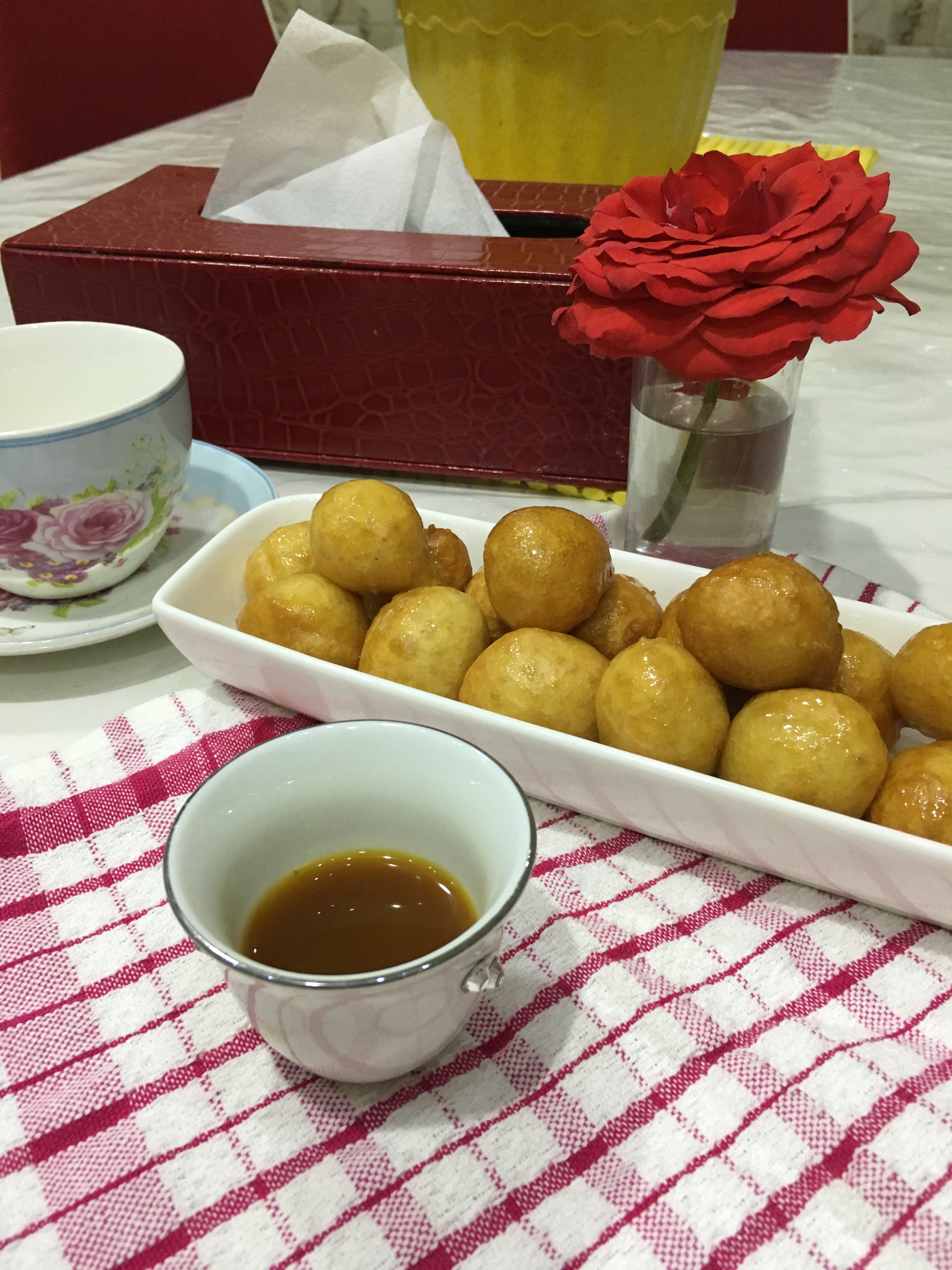 Cup of coffee